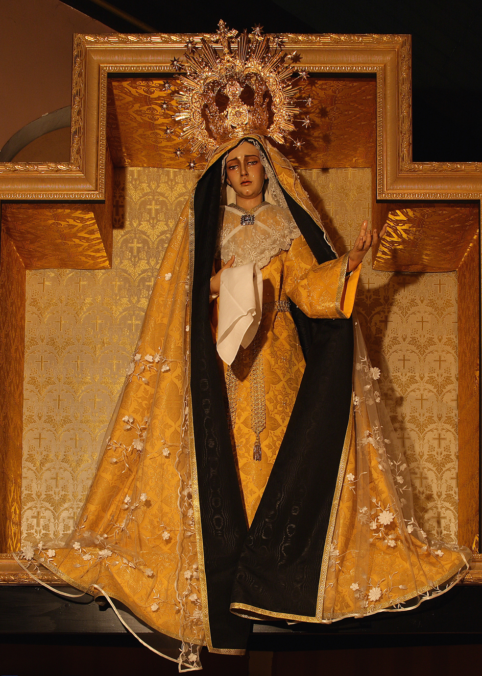 Our Lady of Warfhuizen dressed for Oktober